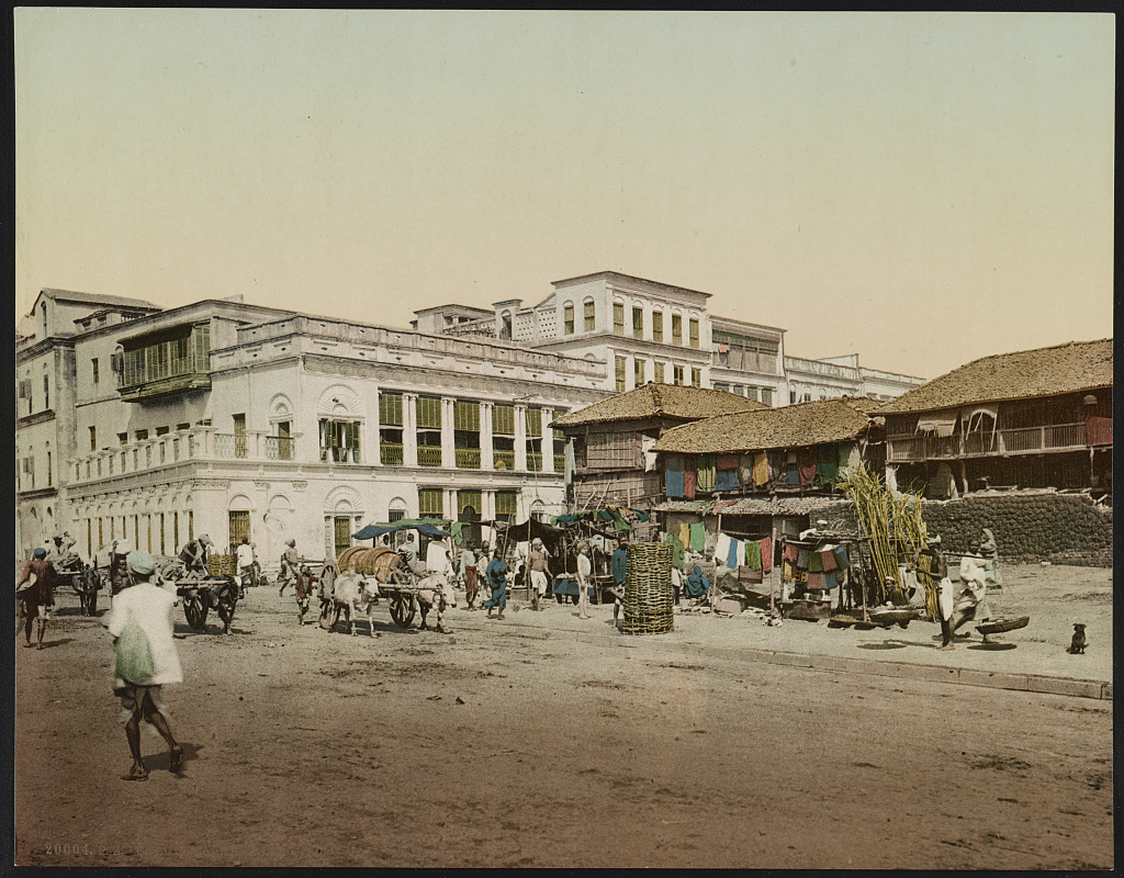 Title: Calcutta. Harrison Road. II. Abstract/medium: 1 print : color photochrom ; sheet 21 x 27 cm.